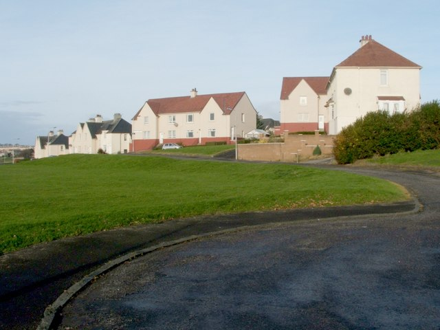 Firthview Terrace, Brucehill. The viewpoint is a few metres from the top of the steps shown here: 1054021.